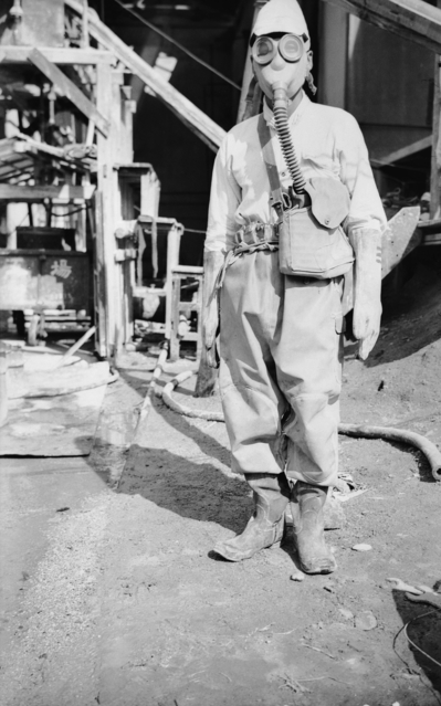 OKUNOSHIMA, JAPAN. JAPANESE ARSENAL WORKER, AT DIRECTOR OF ENGINEERING EQUIPMENT, BCOF, DRESSED IN A-G BOOTS, TROUSERS, GLOVES AND RESPIRATOR. THIS HEAVY RUBBERISED CLOTHING WAS STANDARD JAPANESE ISSUE EQUIPMENT TO ARSENAL WORKERS. THIS IS PART OF OPERATION LEWISITE TO REMOVE AND DESTROY POISON GAS (MAINLY MUSTARD AND LEWISITE) FROM THE TOKYO 2ND ARMY ARSENAL.